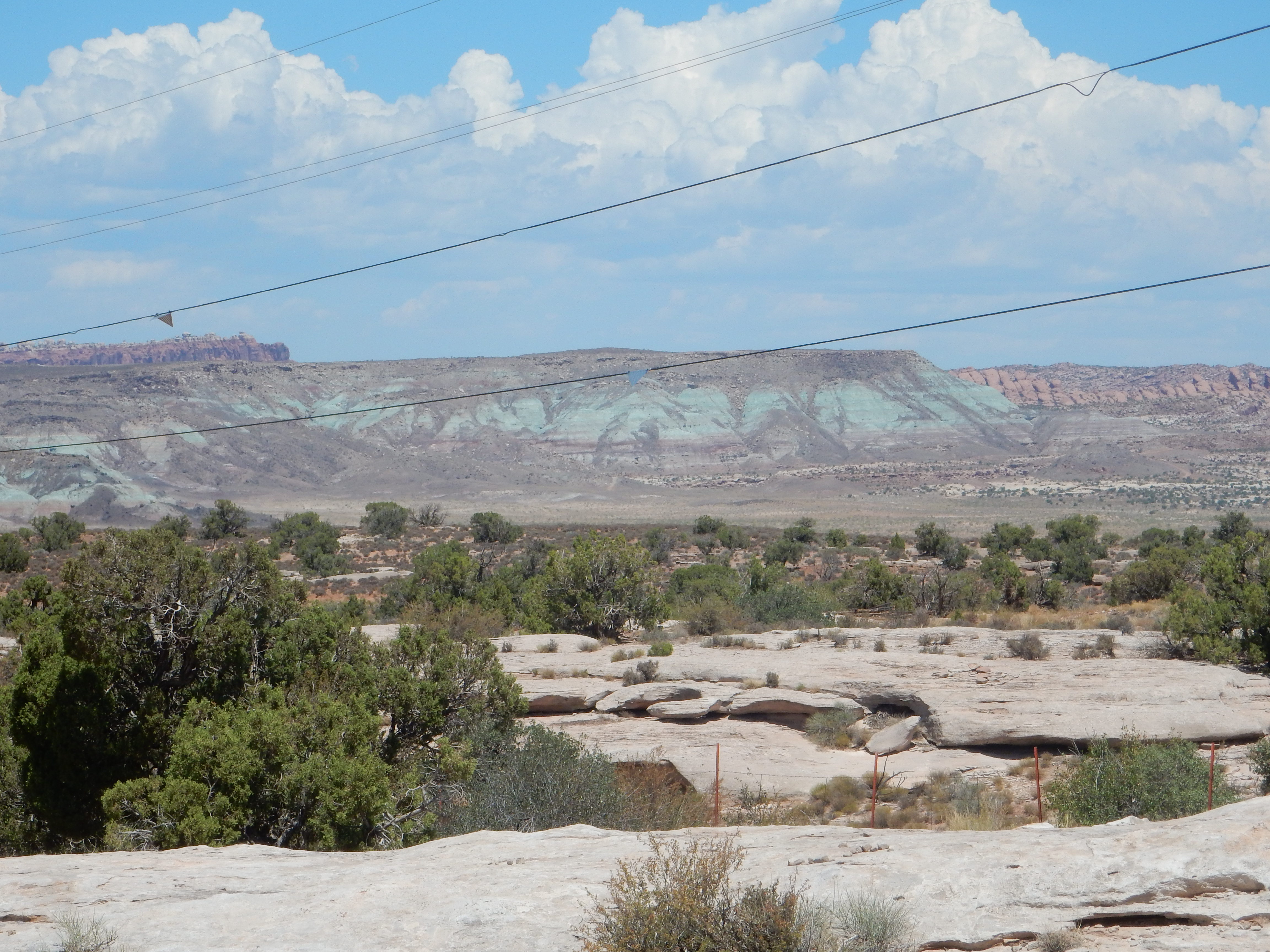 This images shows bluish exposures of the Brush Basin Member of the Morrison Formation southwest of the Devil's Garden area of Arches National Park, Utah,USA. View is towards the northeast. The bluish color is likely from unusual alkaline minerals deposited in Lake T'oo'dichi', a large alkaline saline lake that covered much of the eastern Colorado Plateau during the Late Jurassic.